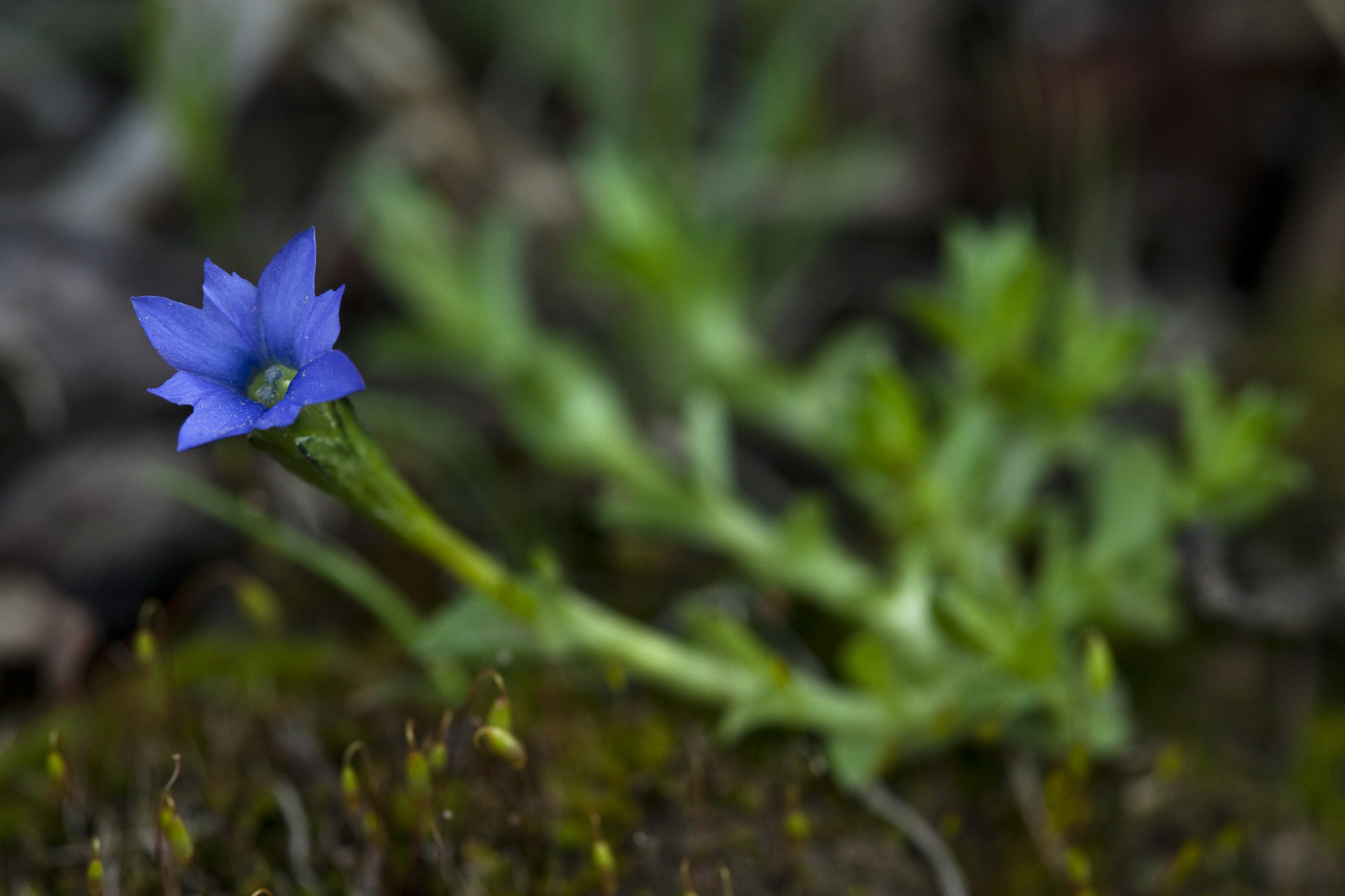 Gentiana prostrata, Denali National Park and Preserve, AK, USA